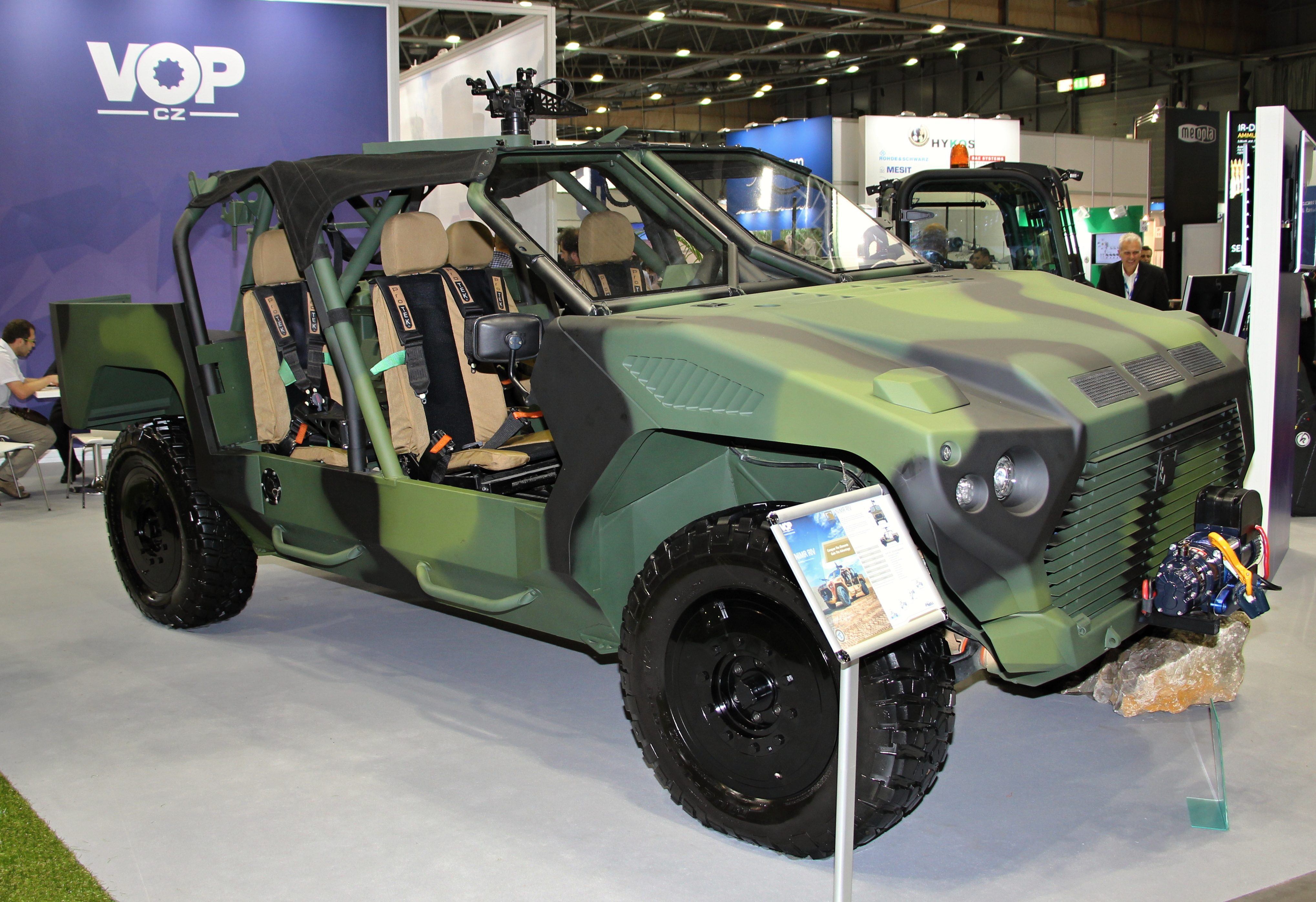 NIMR Rapid Intervention Vehicle (RIV) tactical ground vehicle intended for use by the special forces units. IDET 2017, Brno Exhibition Center, Czech Republic.